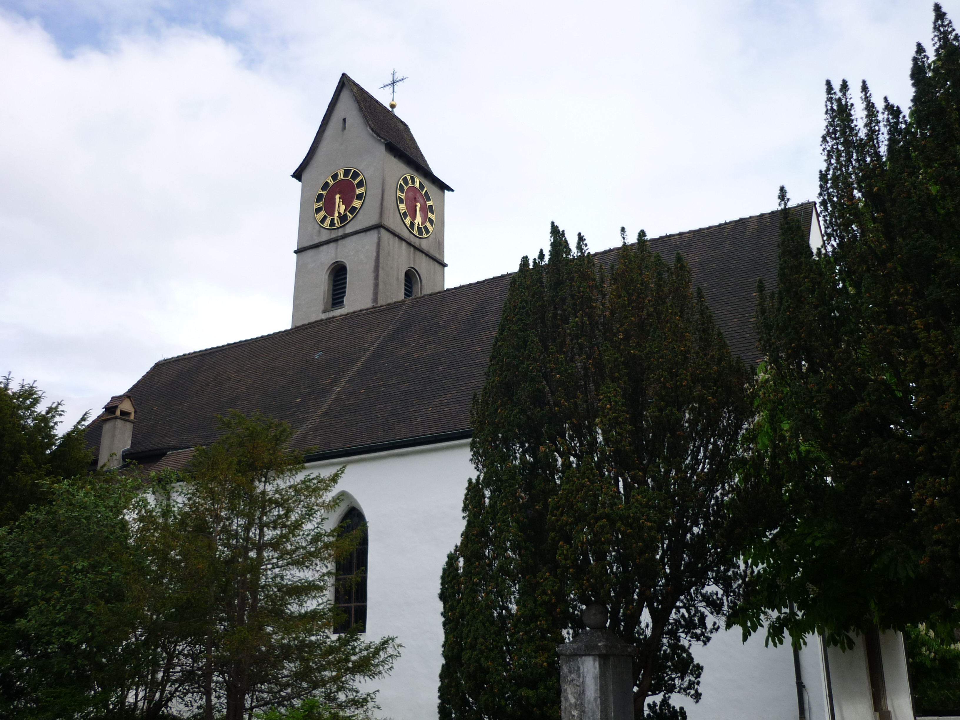 Roman Catholic church "Mariä Himmelfahrt" (Assumption of Mary) in Selzach, Canton of Solothurn, Switzerland.